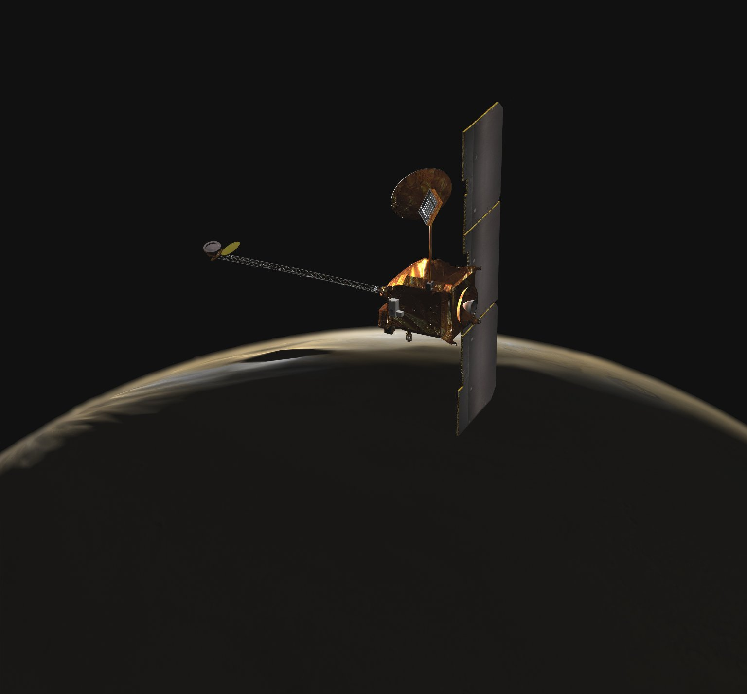 NASA's Mars Odyssey spacecraft passes above a portion of the planet that is rotating into the sunlight in this artist's concept illustration. The spacecraft has been orbiting Mars since October 24, 2001. NASA's Jet Propulsion Laboratory manages the Mars Odyssey mission for the NASA Office of Space Science, Washington, D.C. Investigators at Arizona State University in Tempe, the University of Arizona in Tucson, and NASA's Johnson Space Center, Houston, operate the science instruments. The gamma-ray spectrometer was provided by the University of Arizona in collaboration with the Russian Aviation and Space Agency and Institute for Space Research, which provided the high-energy neutron detector, and the Los Alamos National Laboratories, New Mexico, which provided the neutron spectrometer. Lockheed Martin Space Systems, Denver, is the prime contractor for the project, and developed and built the orbiter. Mission operations are conducted jointly from Lockheed Martin and from JPL, a division of the California Institute of Technology in Pasadena. NASA Identifier: NIX-PIA04818